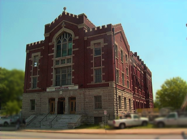 The Scottish Rite Temple is located at 803 North 7th Street Trafficway in Kansas City, Kansas. The architect of the building was W. W. Rose. It was placed on the Kansas City, Kansas Historic Landmark on December 1, 1983. It was placed on the Register of Historic Kansas Places on May 4, 1985. It was placed on the National Register of Historic Places on September 11, 1985.